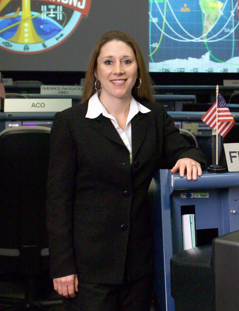 Flight Director Dana J. Weigel poses for a portrait in the Shuttle (White) Flight Control Room in Houston's Mission Control Center.